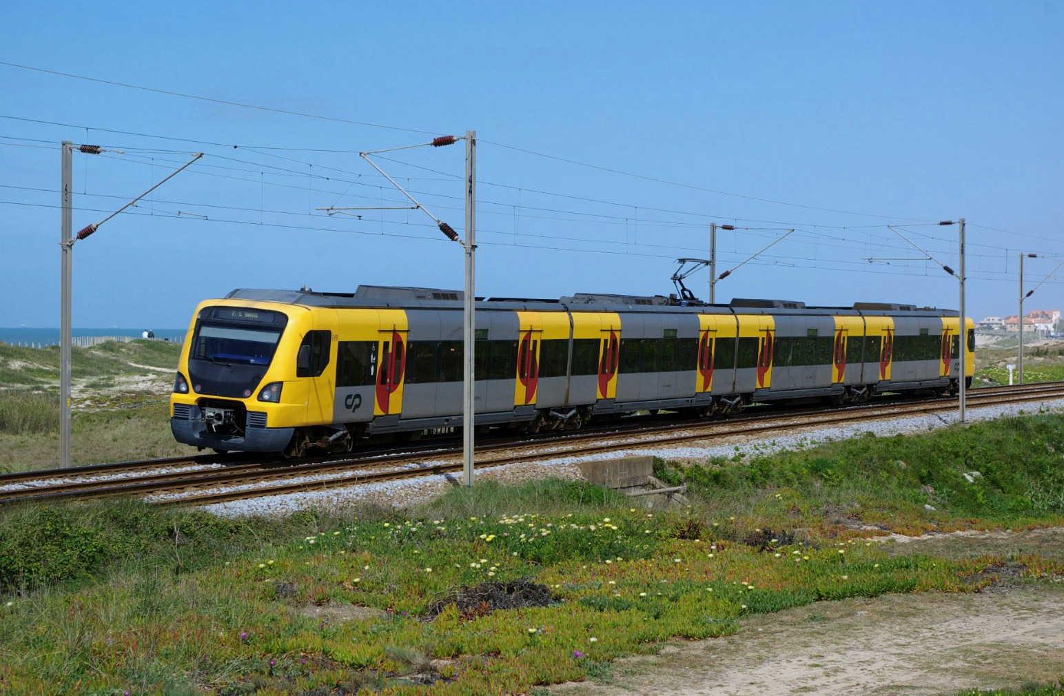 Train type 3400 on the Porto-Ovar suburban line, close to Espinho, Portugal